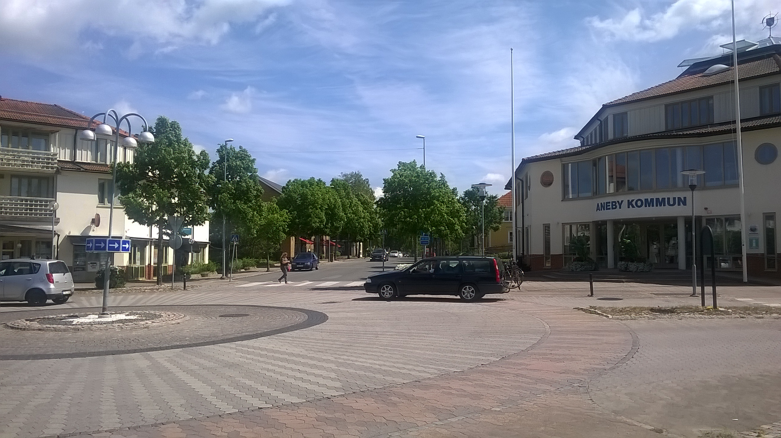 Aneby, Sweden 7 July 2015